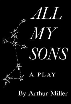 Front cover of the first edition dust jacket of All My Sons